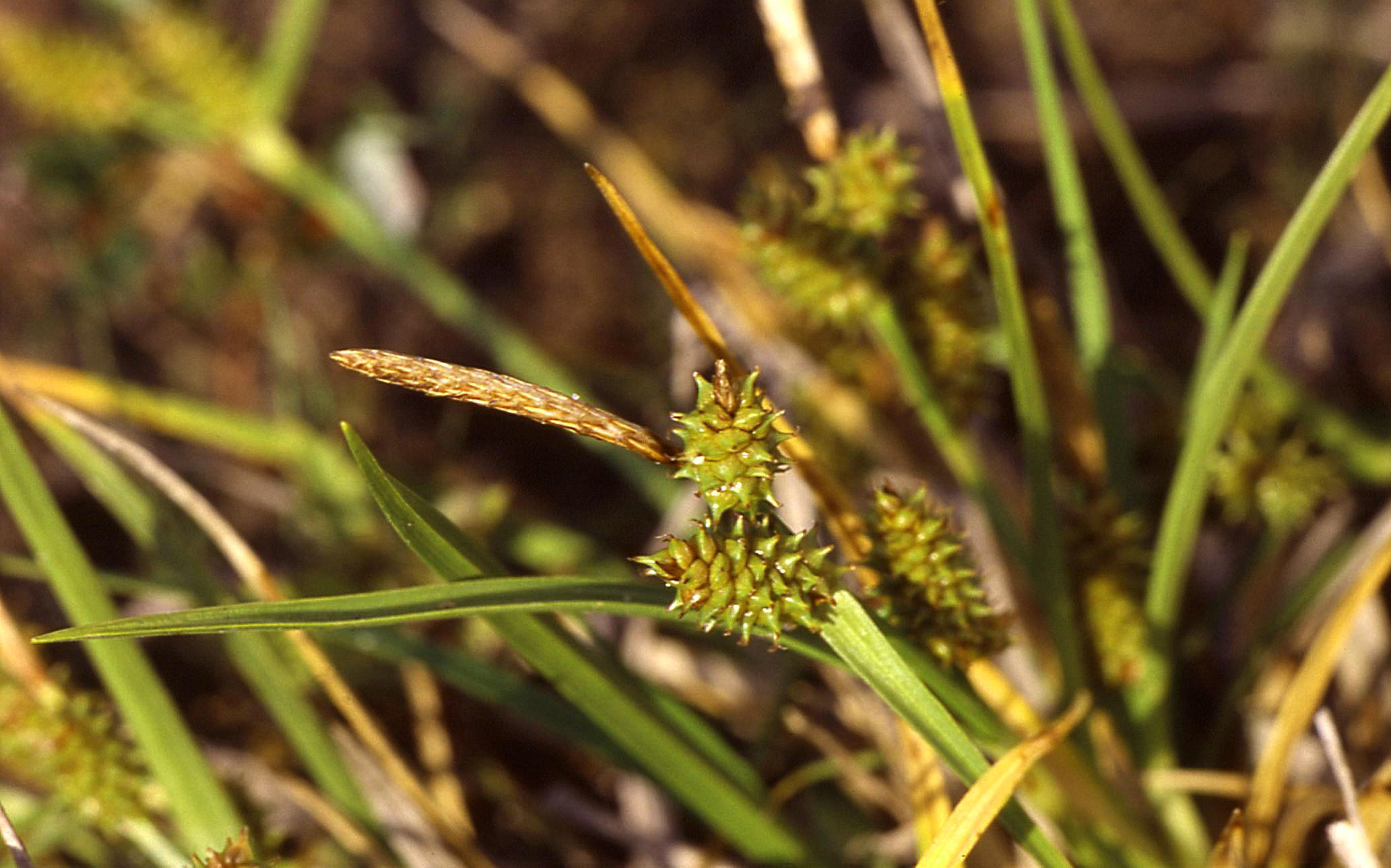 Inflorescence of Carex viridula.